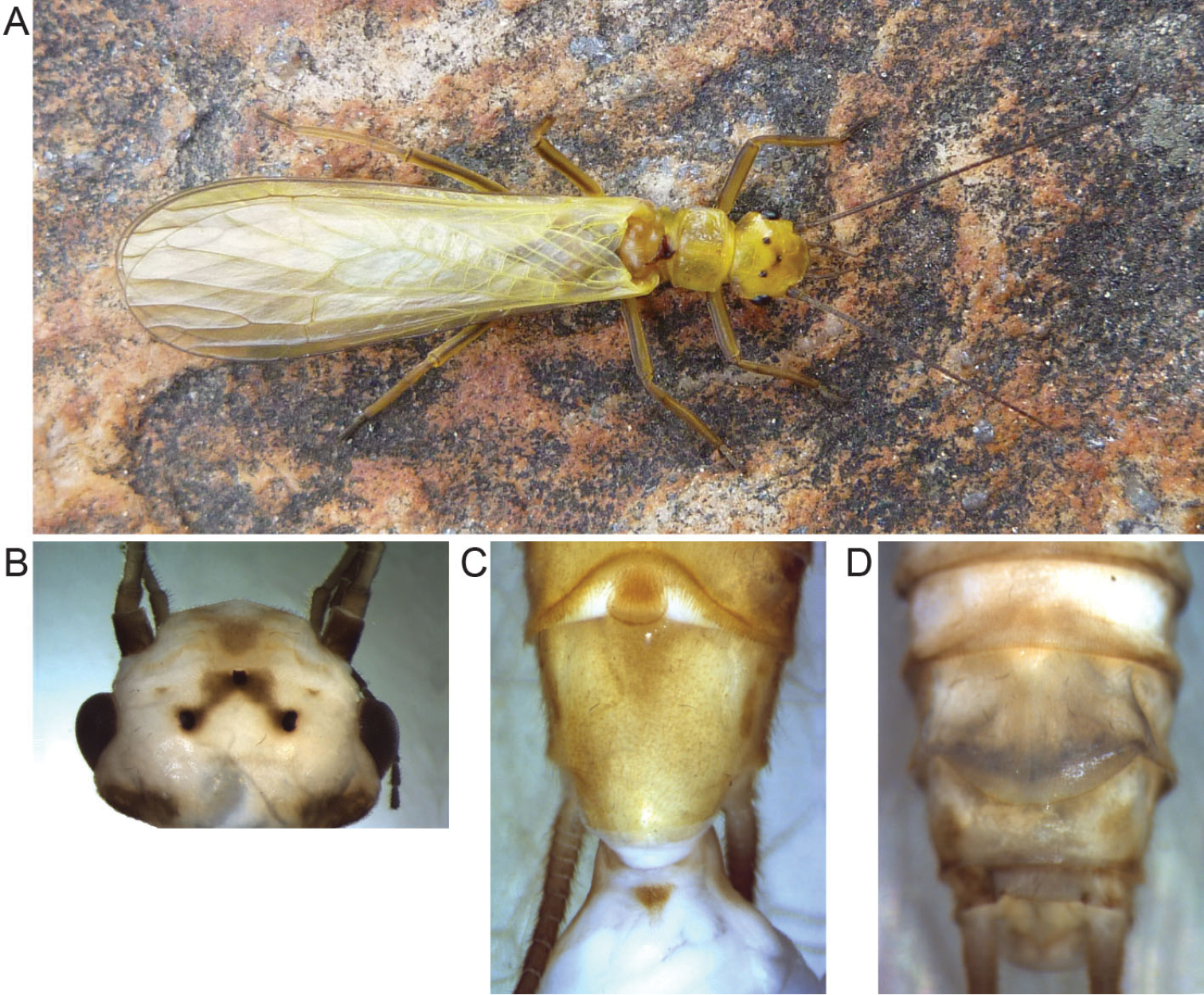 Isoperla claudiae sp. n. A habitus B colouration of the head of I. claudiae C ventral view of the male abdomen with extruded penis D ventral view of the female abdomen.